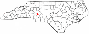 Category:North Carolina Dot Maps